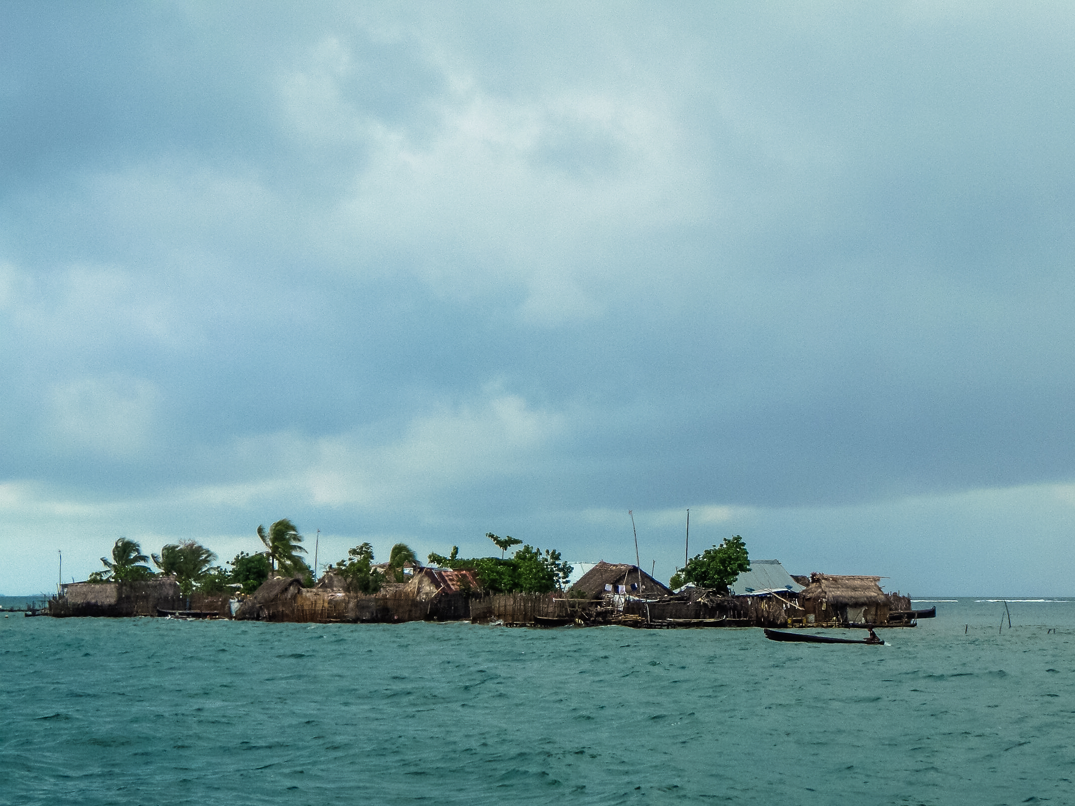 View from Carti Sugtupu